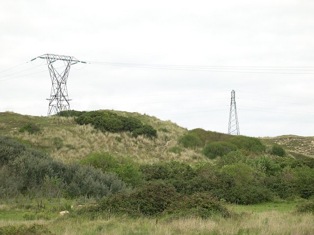 Power lines on Upton Towans. This is part of the Hayle Sand Dune Complex. The photograph was taken from the road which runs along the inland edge of the dunes.